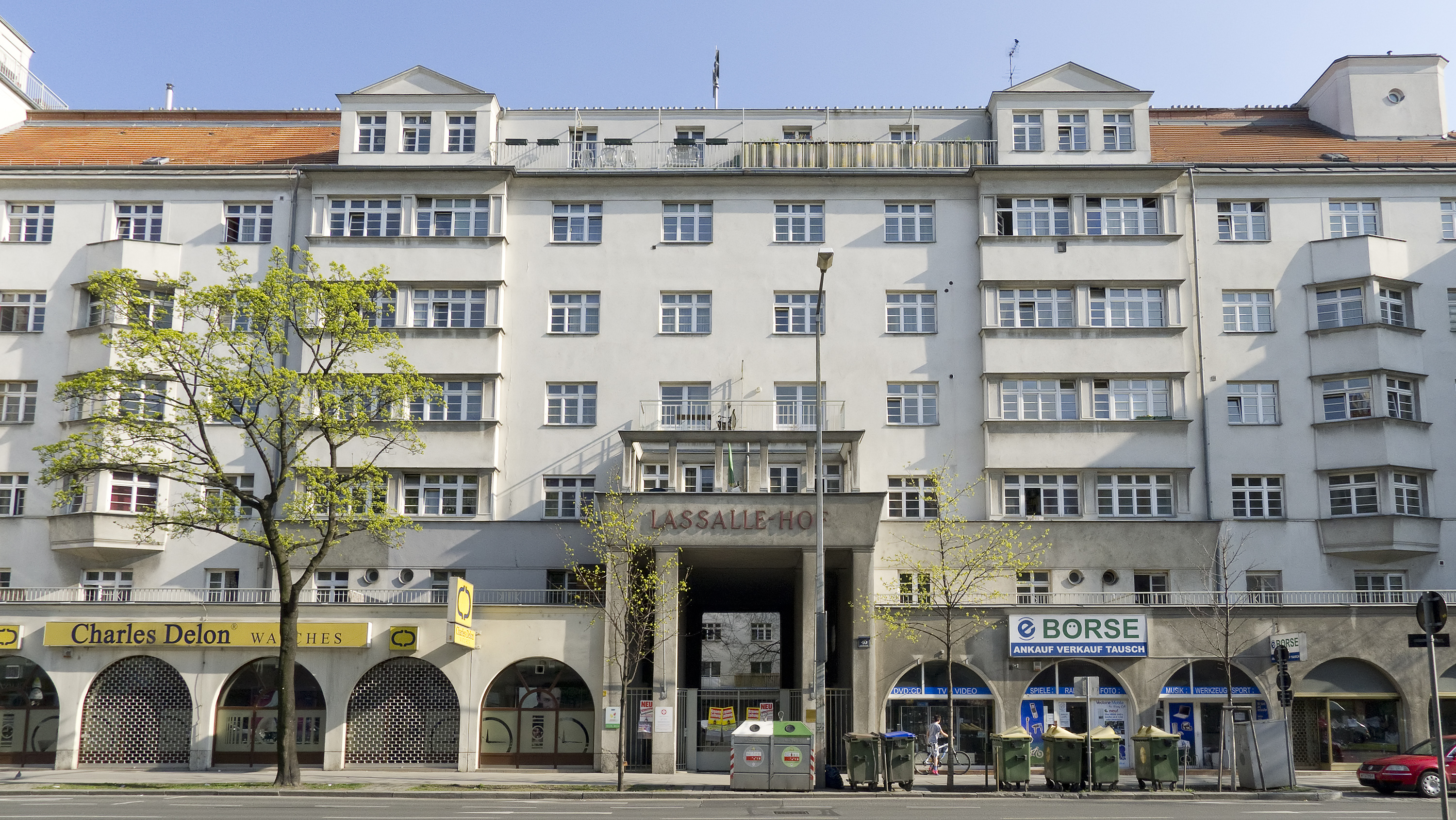 Residential building Lassalle-Hof at Lassallestraße 40, Vienna Leopoldstatdt